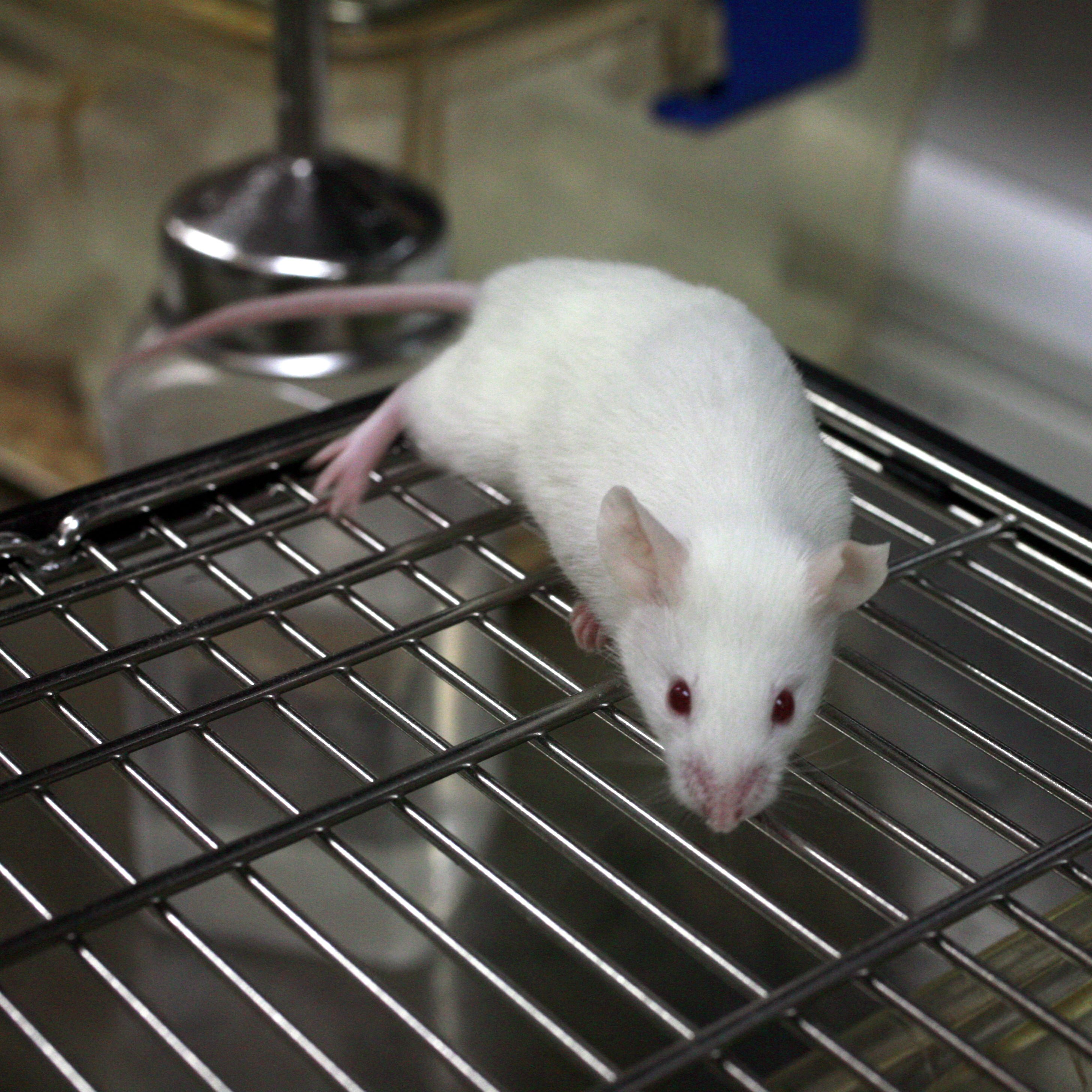 Laboratory mouse